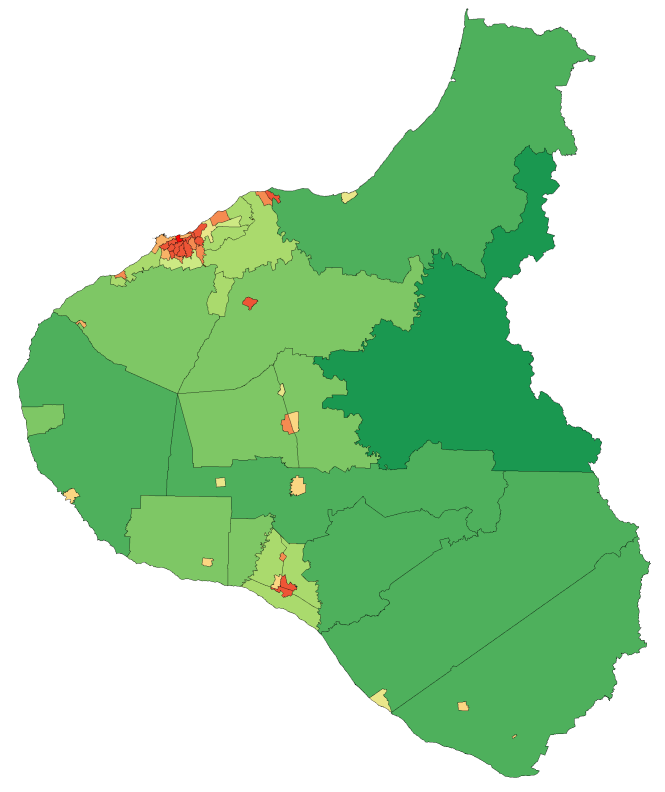 Map showing population density of a region of New Zealand (by Statistics NZ Area Unit) as of the 2006 census